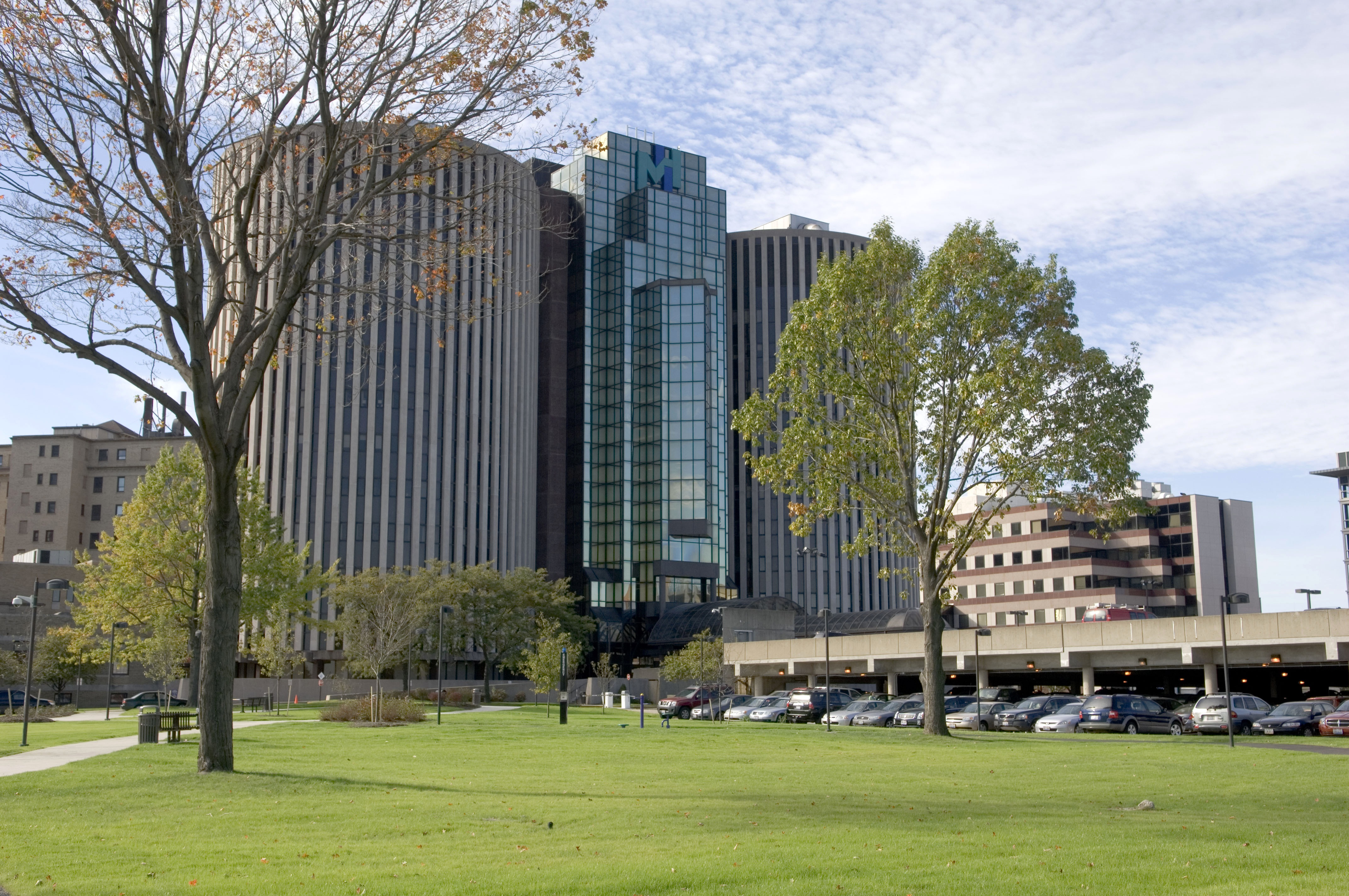 The iconic Manning Towers at MetroHealth Medical Center in Cleveland were constructed in the early 1970s.